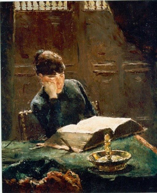 Portret van schildersvrouw